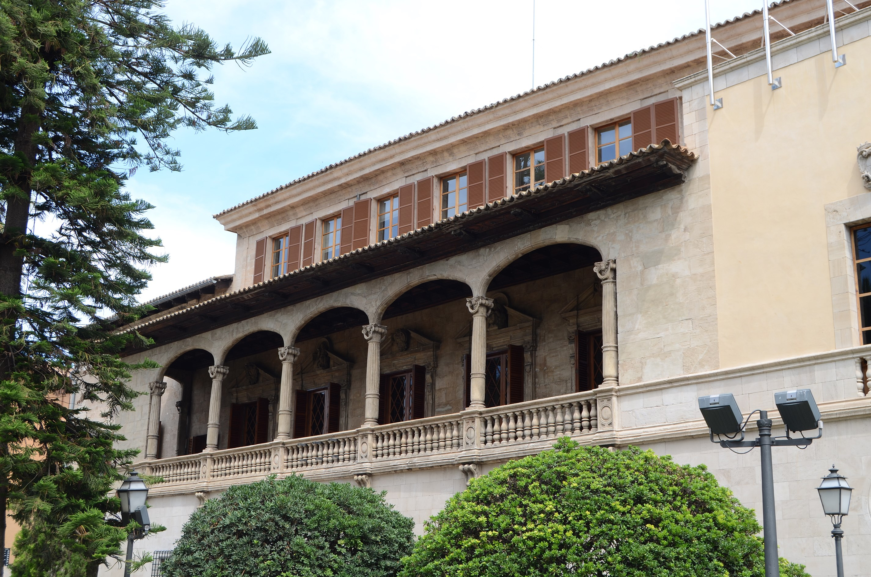 Palma (Majorca, Spain) – Consolat de Mar This photograph was taken with a Nikon D7000